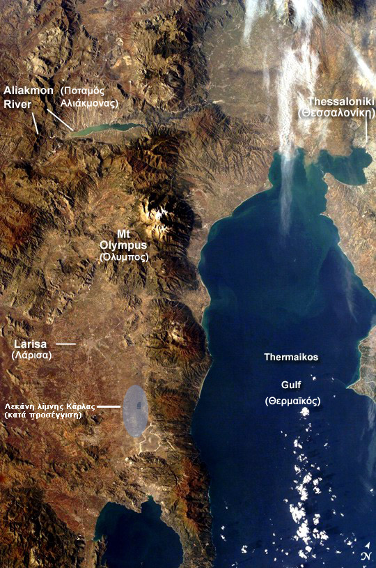 Original photo by NASA. I have added text in Greek and a layer showing the approximate location of Lake Karla. The lake is scheduled to be artificially recreated by 2010.